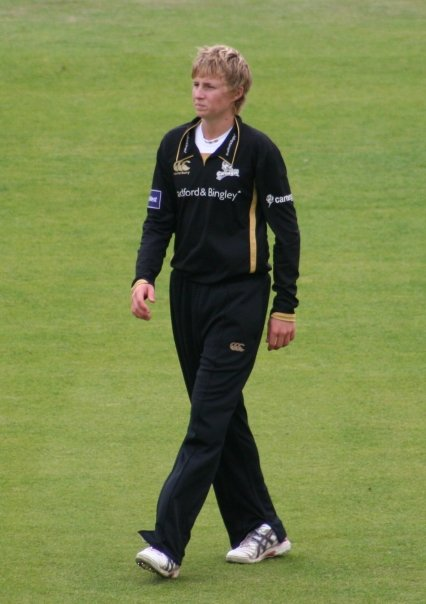 Joe Root makes his Yorkshire debut at Headingley, against the Essex Eagles